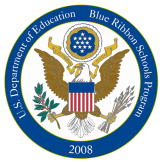 Logo of the Blue Ribbon Schools Program